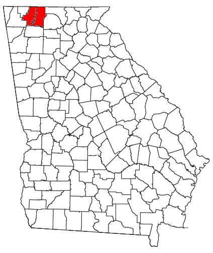 Locator map of the Dalton Metropolitan Statistical Area in the northwestern part of the U.S. state of Georgia.